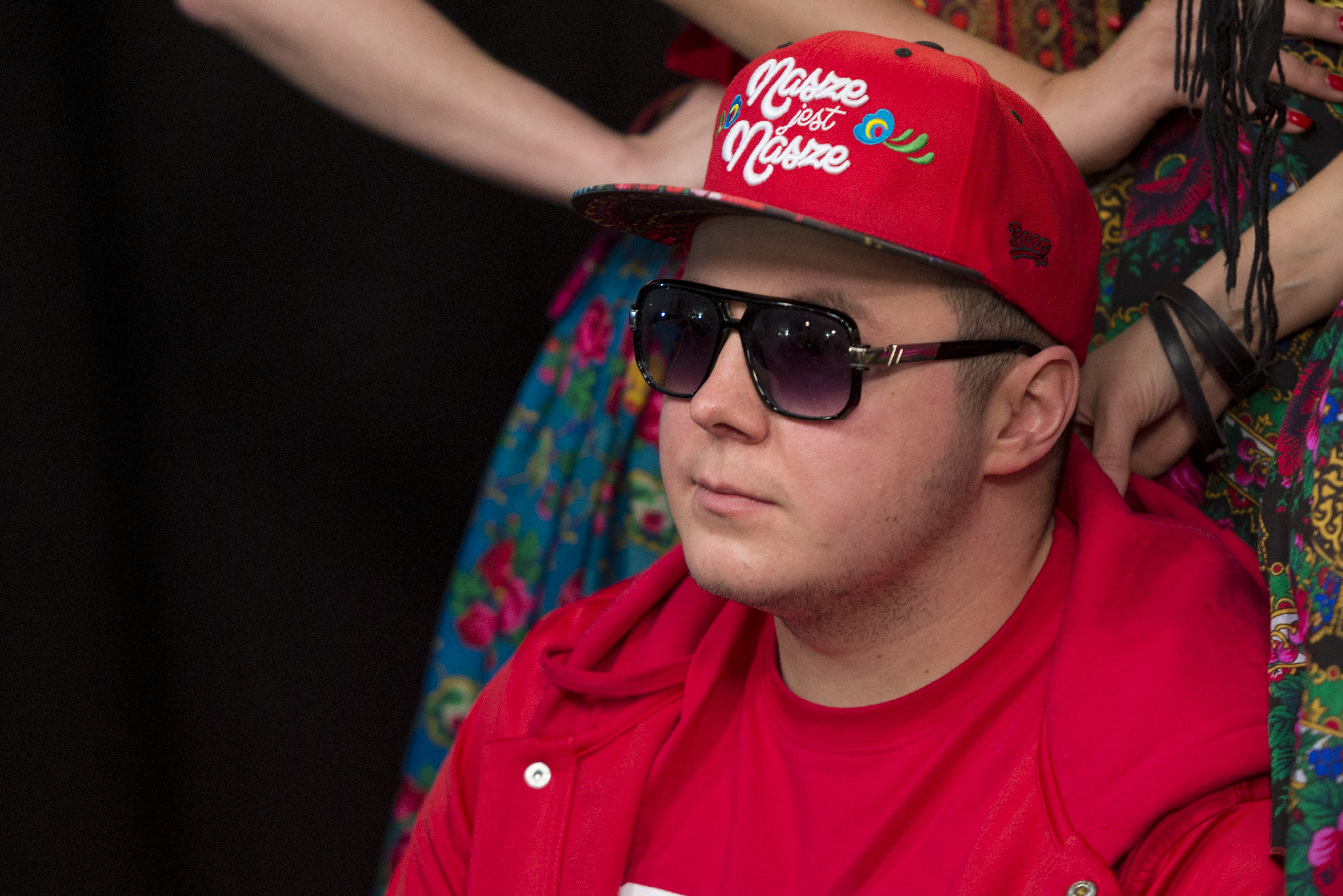 Donatan and Cleo at a Meet & Greet during the Eurovision Song Contest 2014 Copenhagen. (Help translate this text)